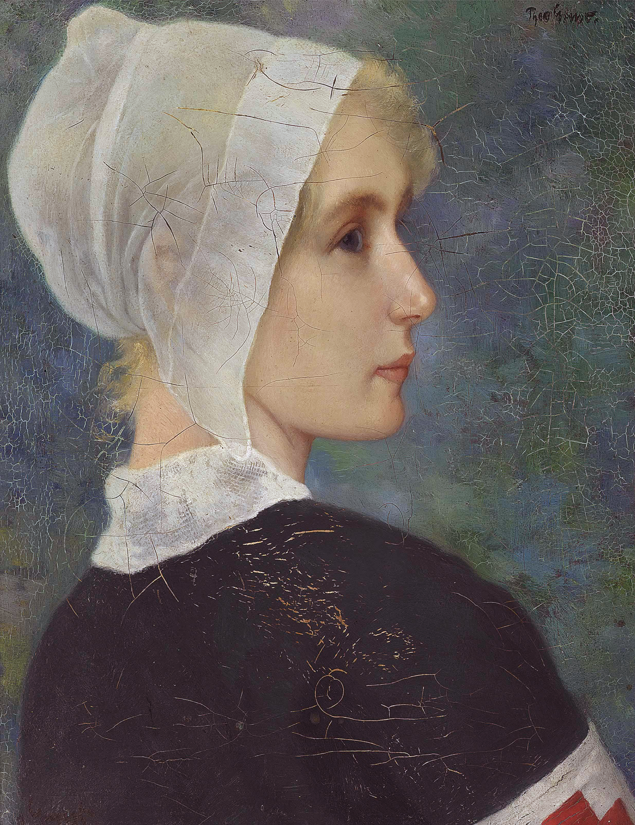 Red Cross Nurse oil on canvas 45.5 x 35.7 cm signed u.r.: Theo Grust